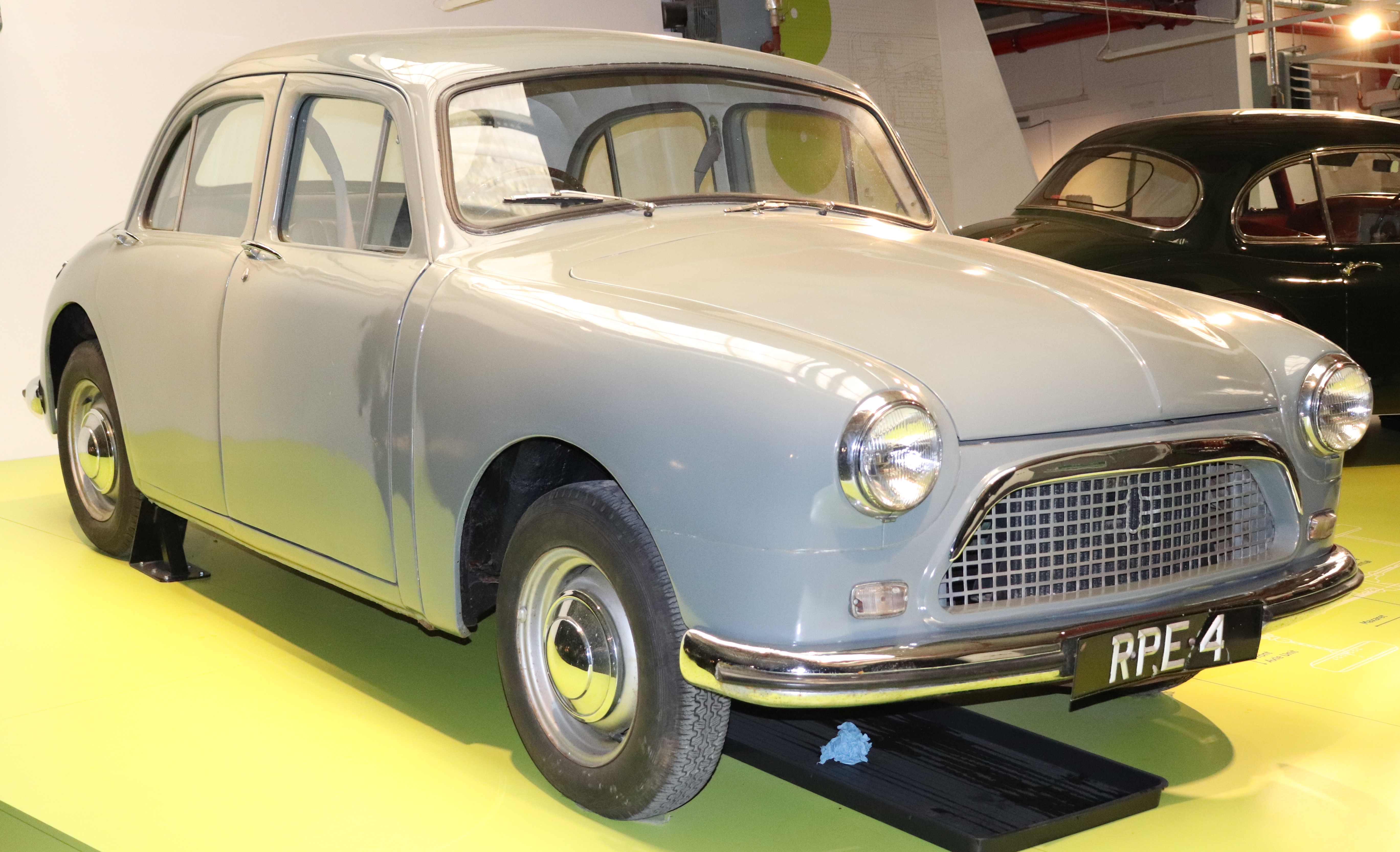 1952 Ferguson R4 Prototype 2.0 Taken in the Coventry Transport Museum